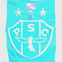 Paysandu's Badge on a shirt of soccer